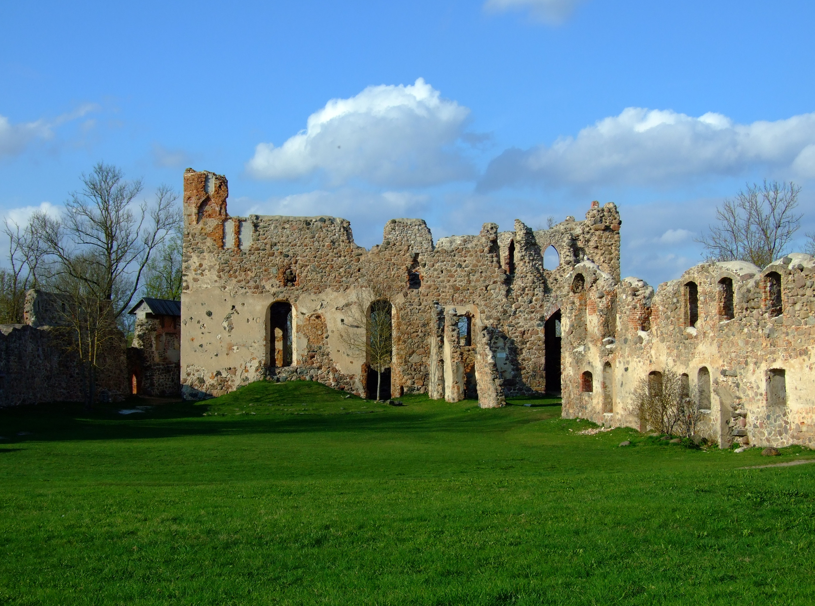 Ruins of Dobeles Castle.